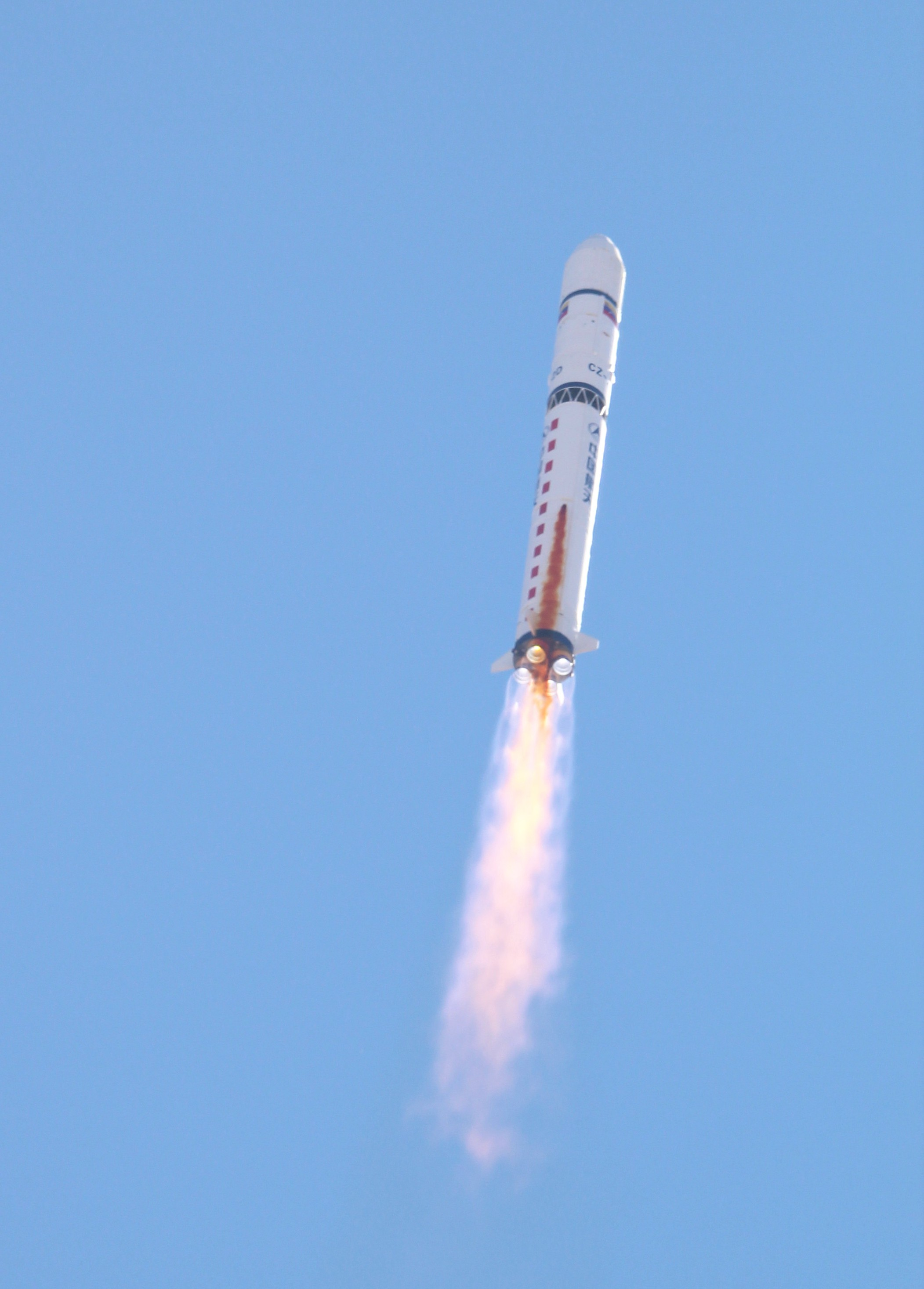 Launch of the first Venezuelan Earth observation satellite, VRSS-1 / Miranda, by the LM-2D launch vehicle. Apochromatic telescope 80 mm / 480 mm, Canon T3i. Location: Jiuquan Satellite Launch Center, Gansu Province, China.